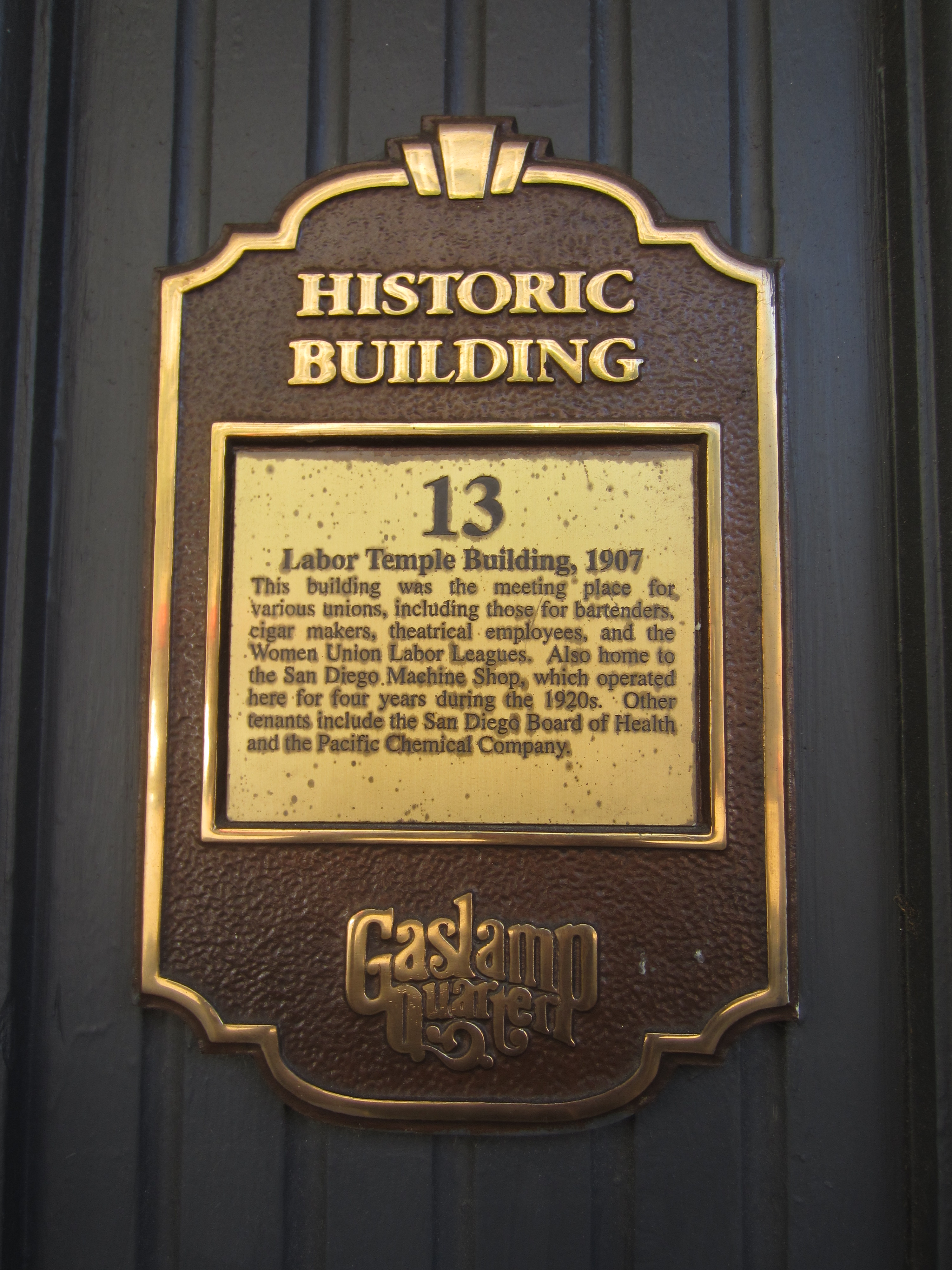 San Diego, 2016